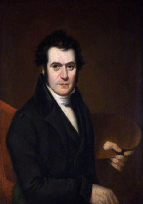 Self portrait oil on canvas 91.5 x 73.5 cm circa 1854